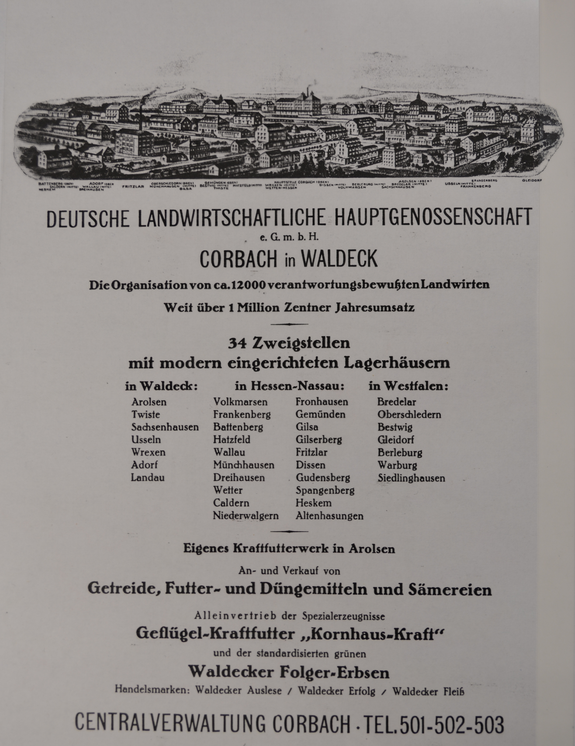 Staffed office region 1930